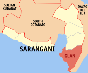 Map of the Sarangani showing the location of Glan